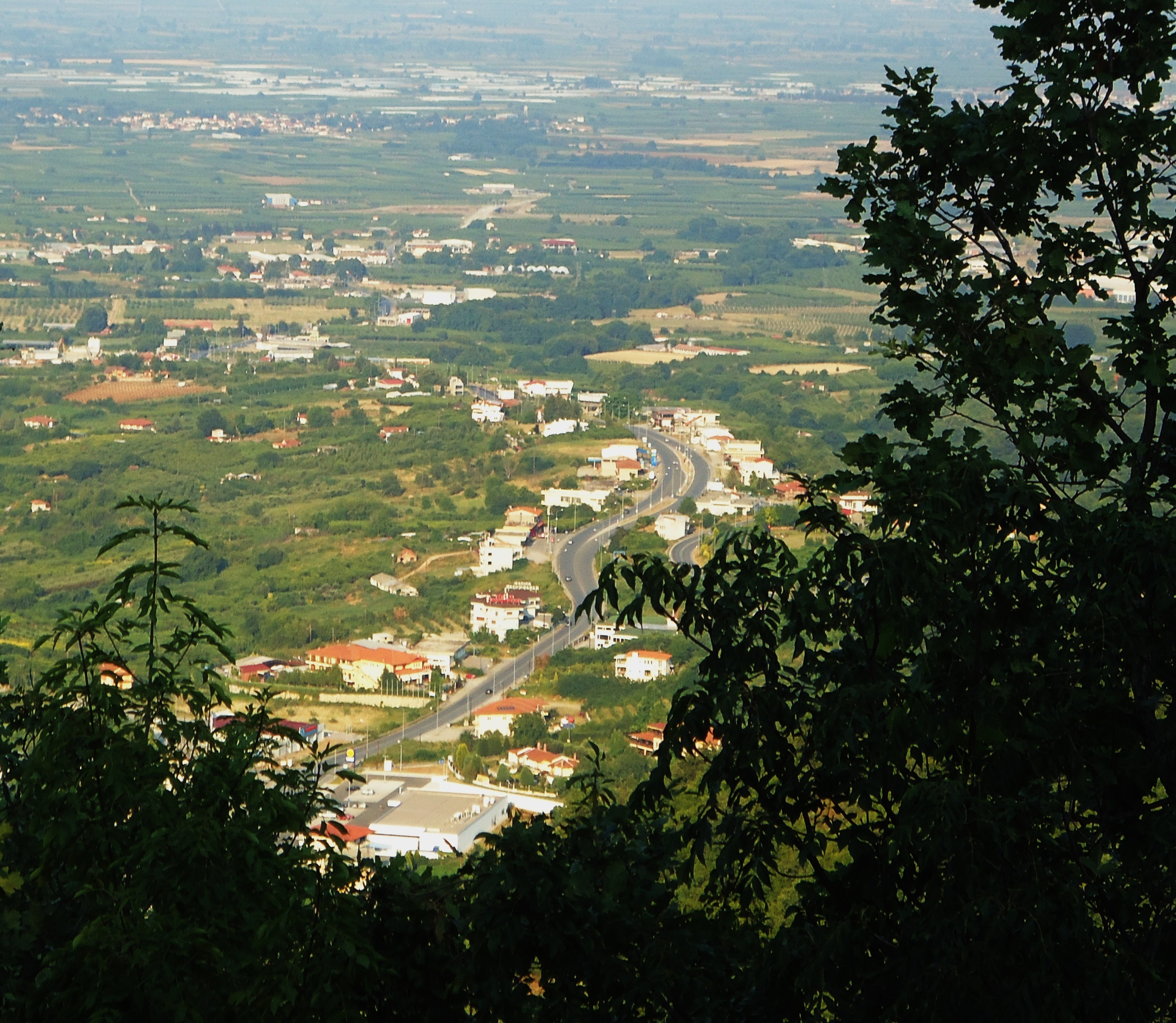 as seen from the town